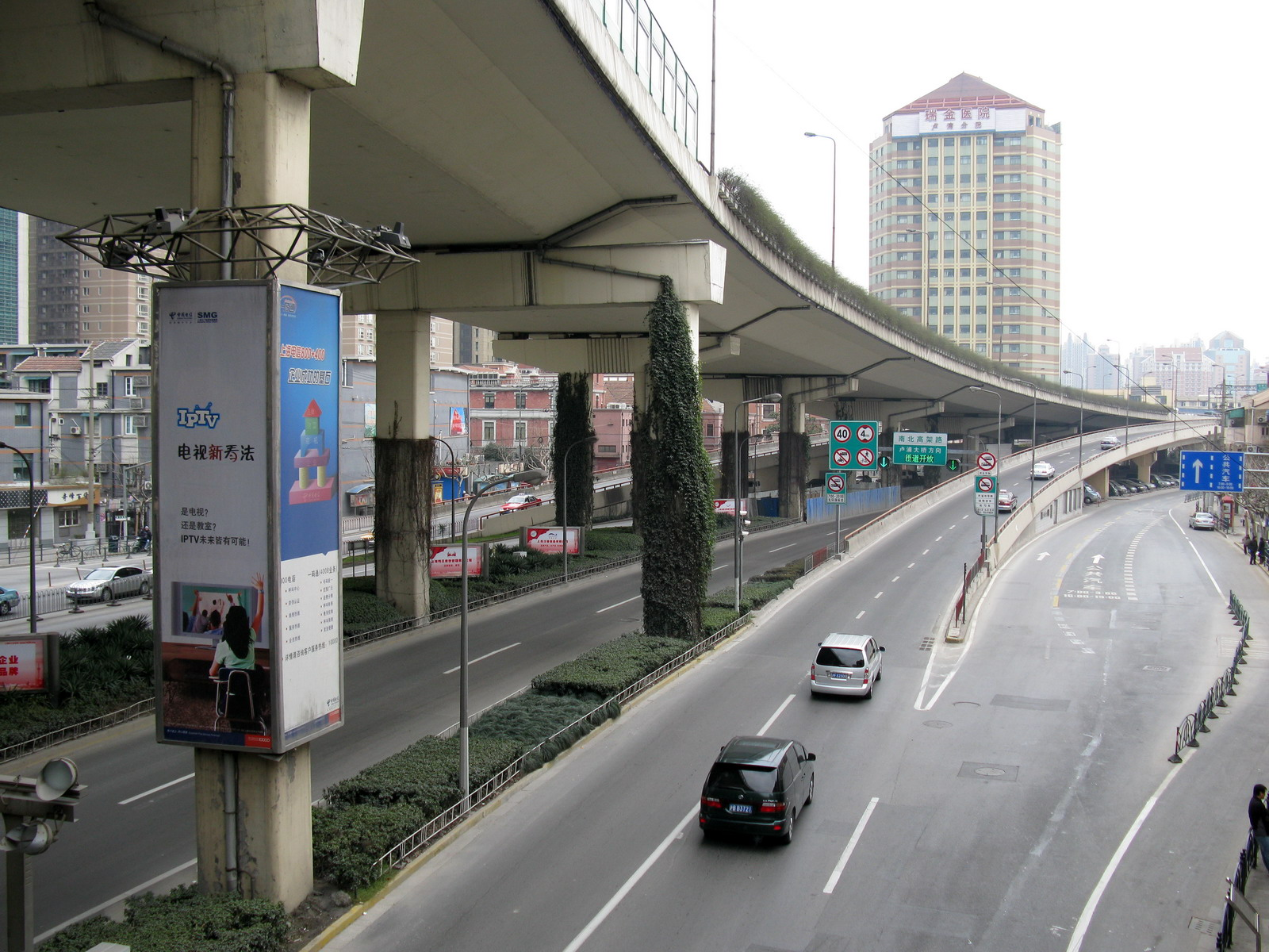 South Chongqing Road Central Huaihai Road